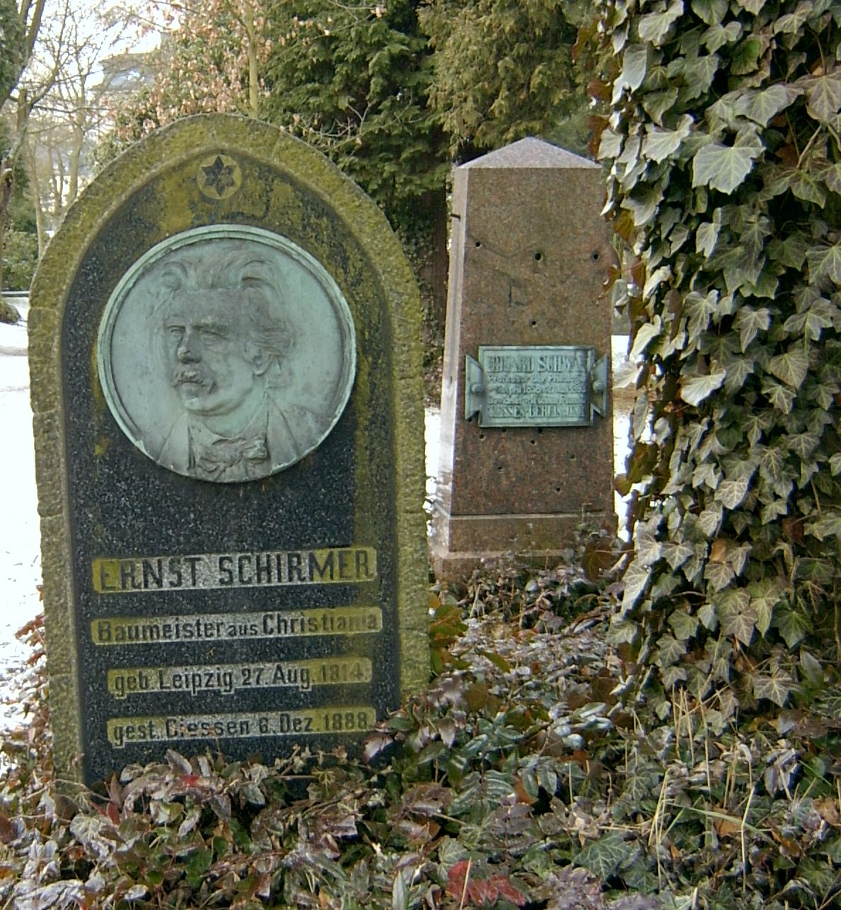 Gravestone of Ernst Schirmer on the Alter Friedhof (old cemetery) in Gießen